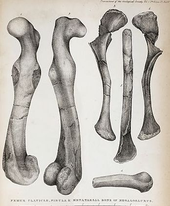 Megalosaurus limb bones 1824 Plate XLIV of Megalosaurus' femur, clavicle, fibula and metatarsals drawn by Mary Moreland, from William Buckland's "Notice on the Megalosaurus or great Fossil Lizard of Stonesfield". Transactions of the Geological Society of London, series 2, vol 1: 390 -396. A monumental year in paleontology seeing (in this volume) both Buckland's first scientific description of a dinosaur, Megalosaurus, and Conybeare's first validation of long necked Plesiosaurs and scientific reconstructions of Plesiosaurs and Ichthyosaurs - artist Mary Buckland, née Morland (1797-1857), British palaeontologist